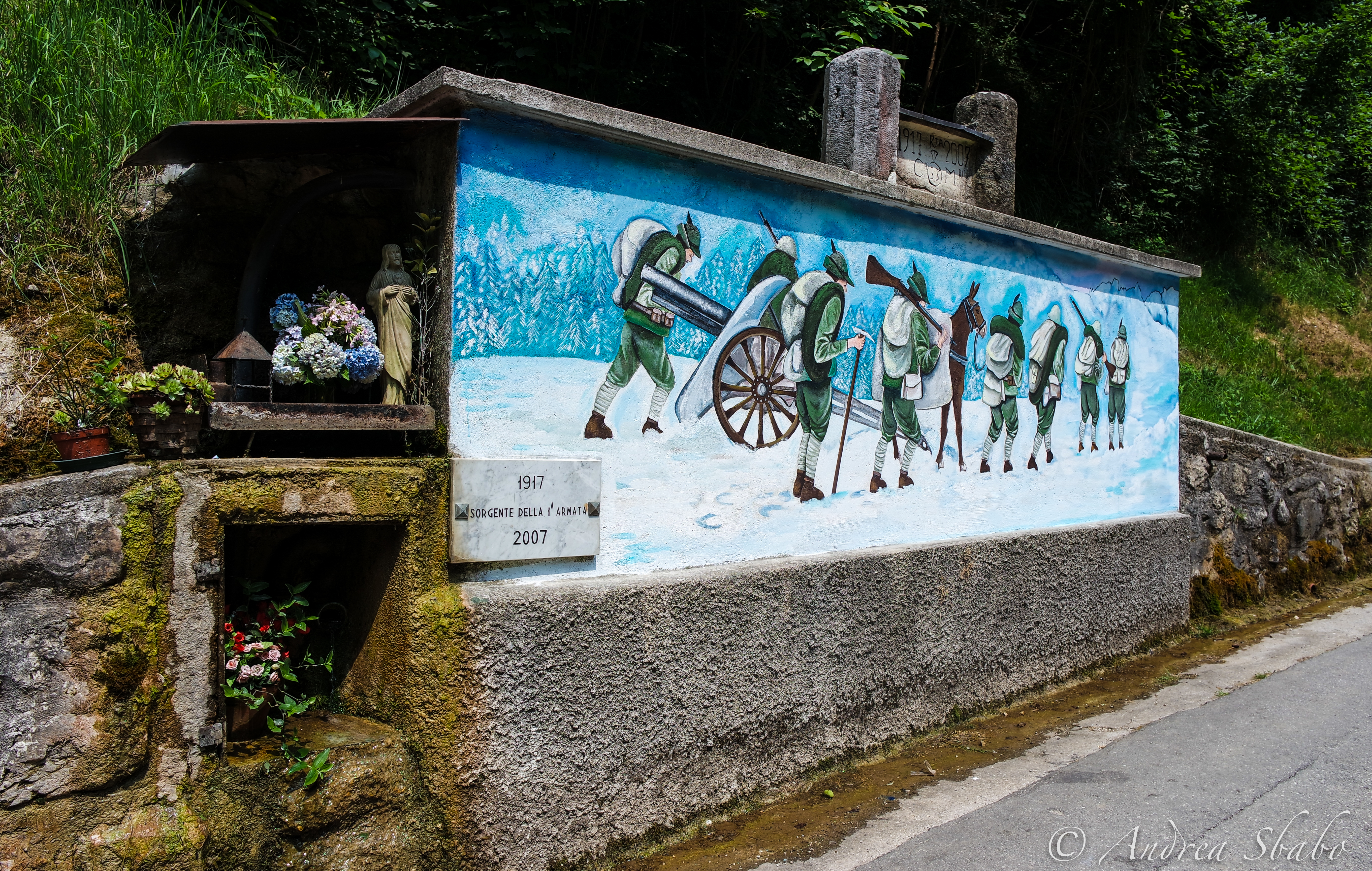 la sorgente della prima armata sulla sinistra con al fianco un dipinto di recente costruzione ritraente la 1ª Armata con sullo sfondo le montagne che circondano Staro e nelle quali si è combattuta la grande Guerra.